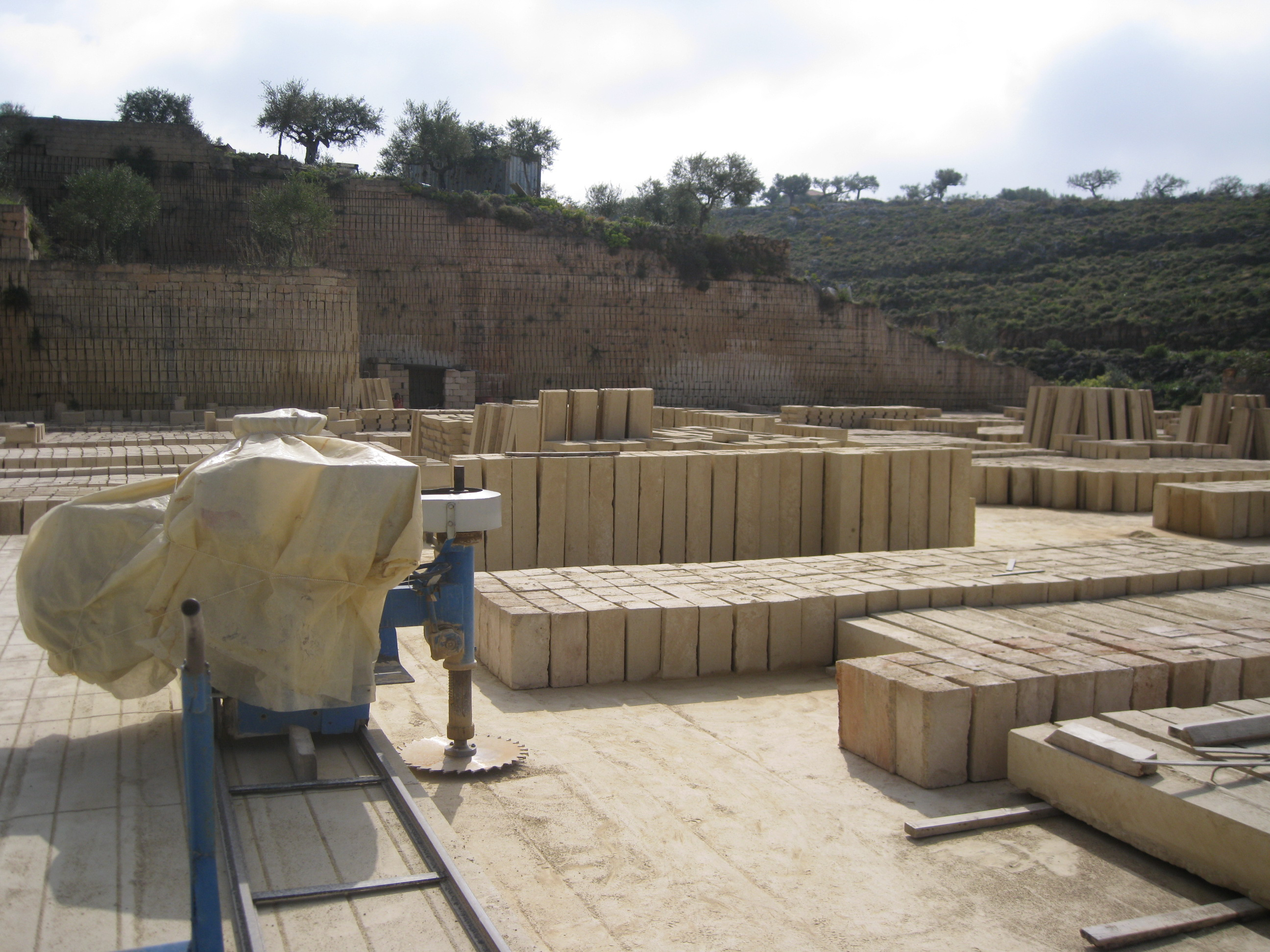 Stone quarry in Proastio Laconia Greece